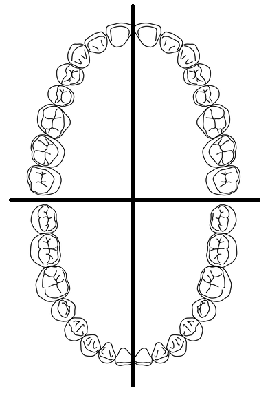 Diagram of the 4 quadrants of the human dentition